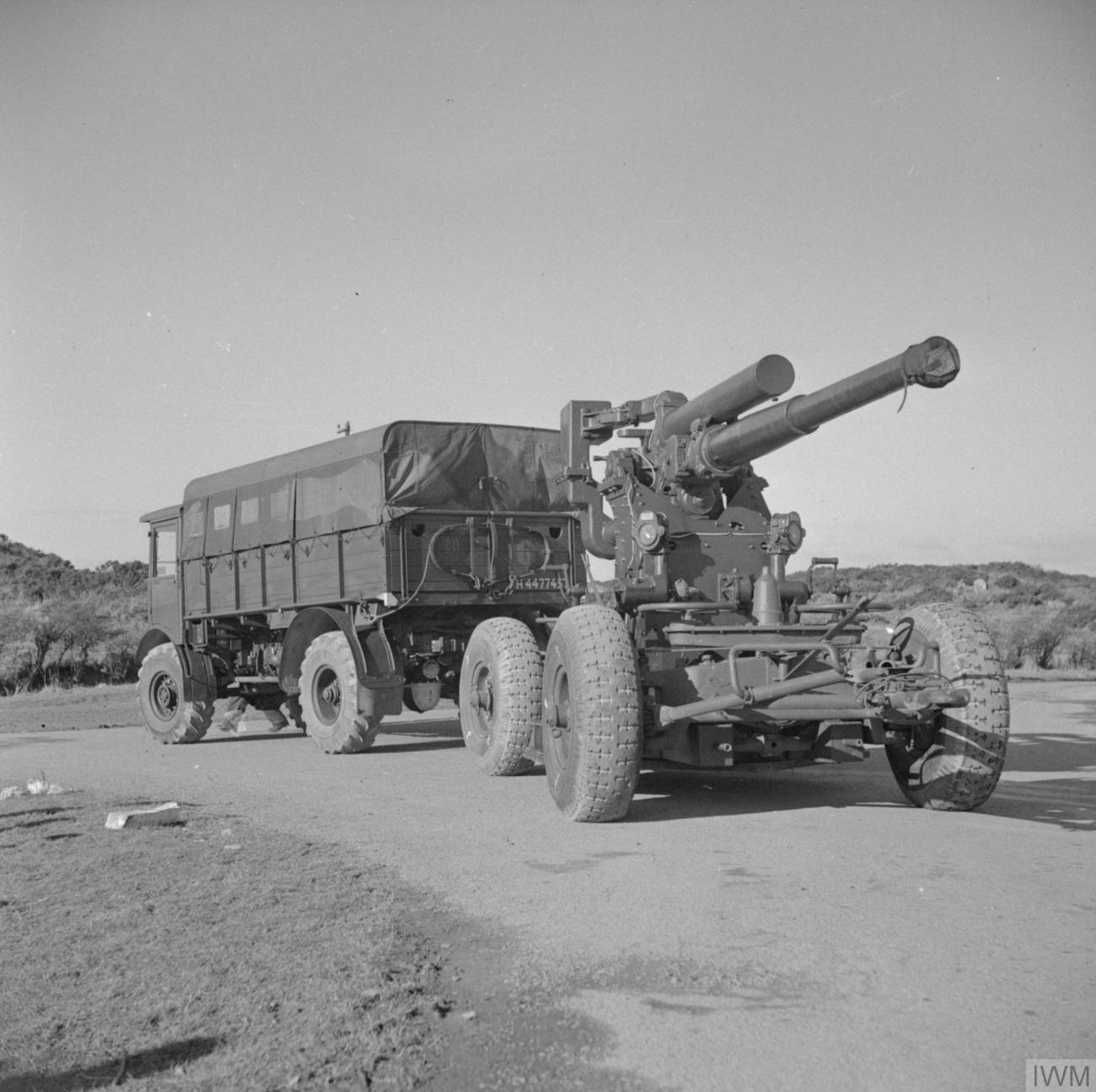 The British Army in the United Kingdom 1939-45 AEC Matador artillery tractor towing a 3.7-inch anti-aircraft gun at Burrow Head in Scotland, 18 February 1944.